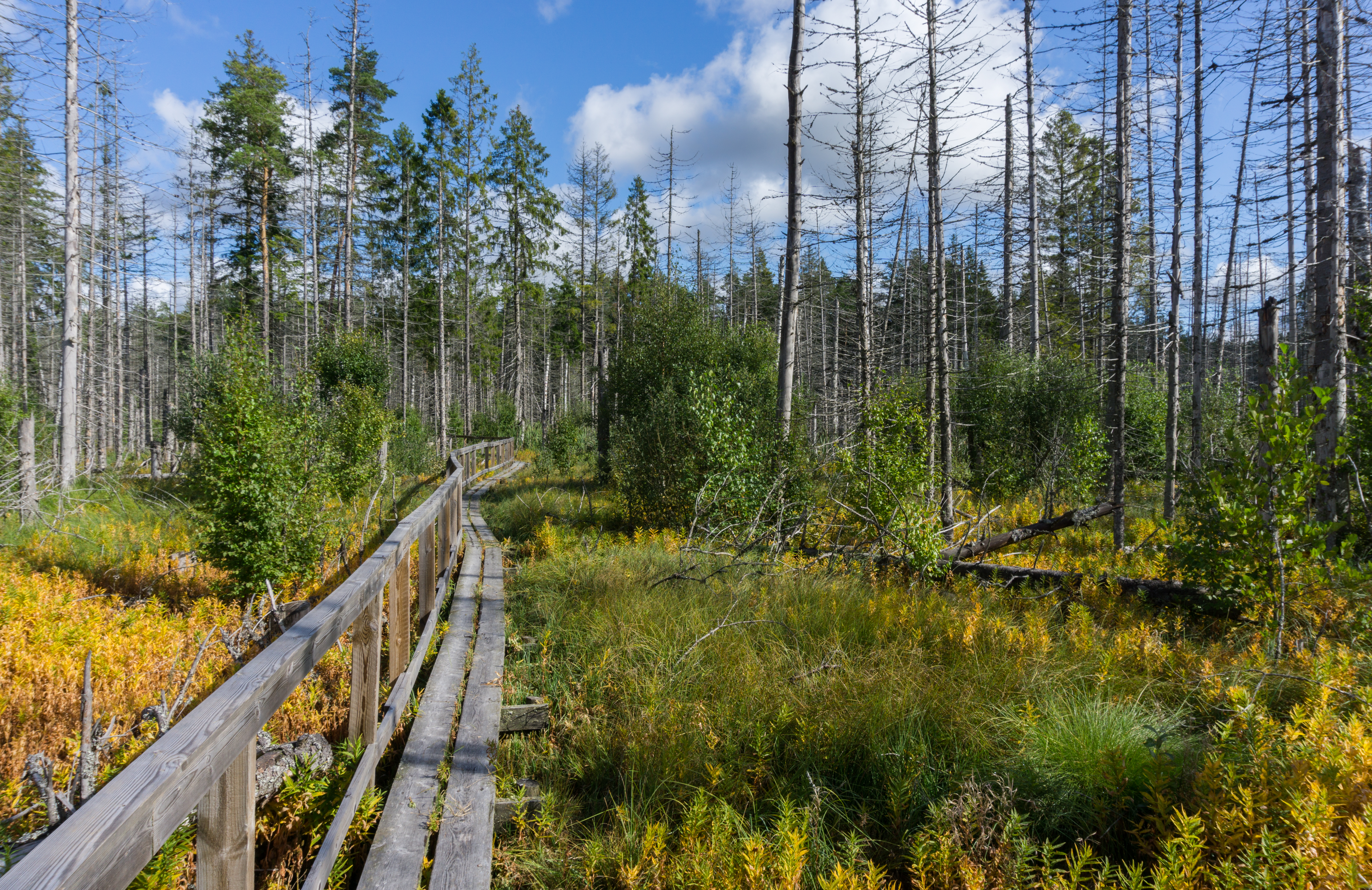 Nature reserve Norra Lunsen. It lies south of Uppsala, Uppland, Sweden